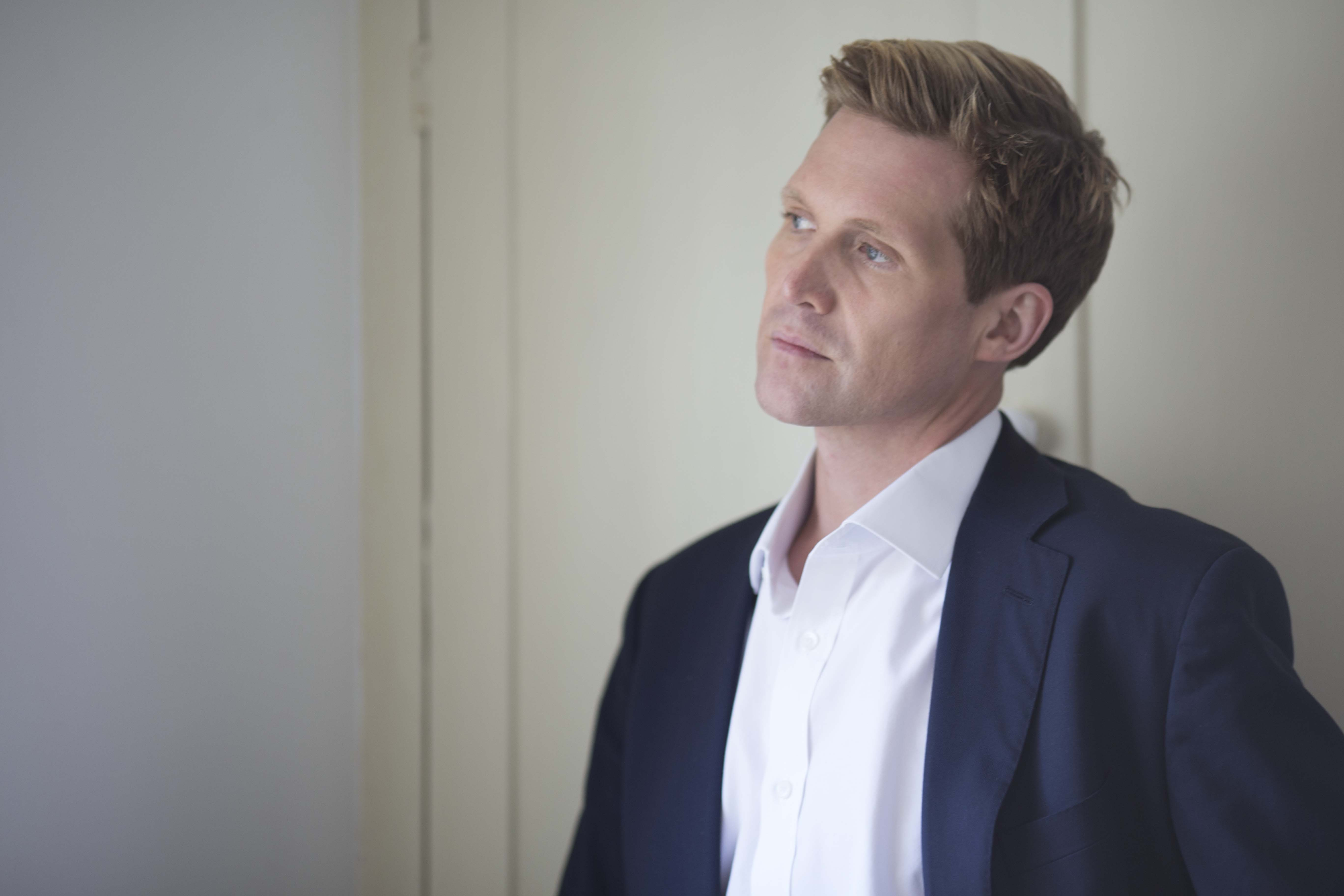 David Haigh pictured discussing Human Rights in the UAE